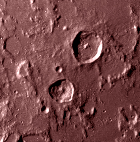 Godin and Agrippa, on the Moon. Infrared image in L band centred on 3.75 micrometres. Taken with the SIRCA camera by M. Gålfalk, G. Olofsson, and H.-G. Florén. Nordic Optical Telescope, Stockholm Observatory. More images can be found here.